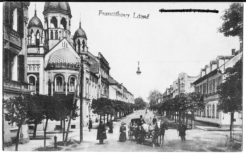 Františkovy Lázně Synagogue